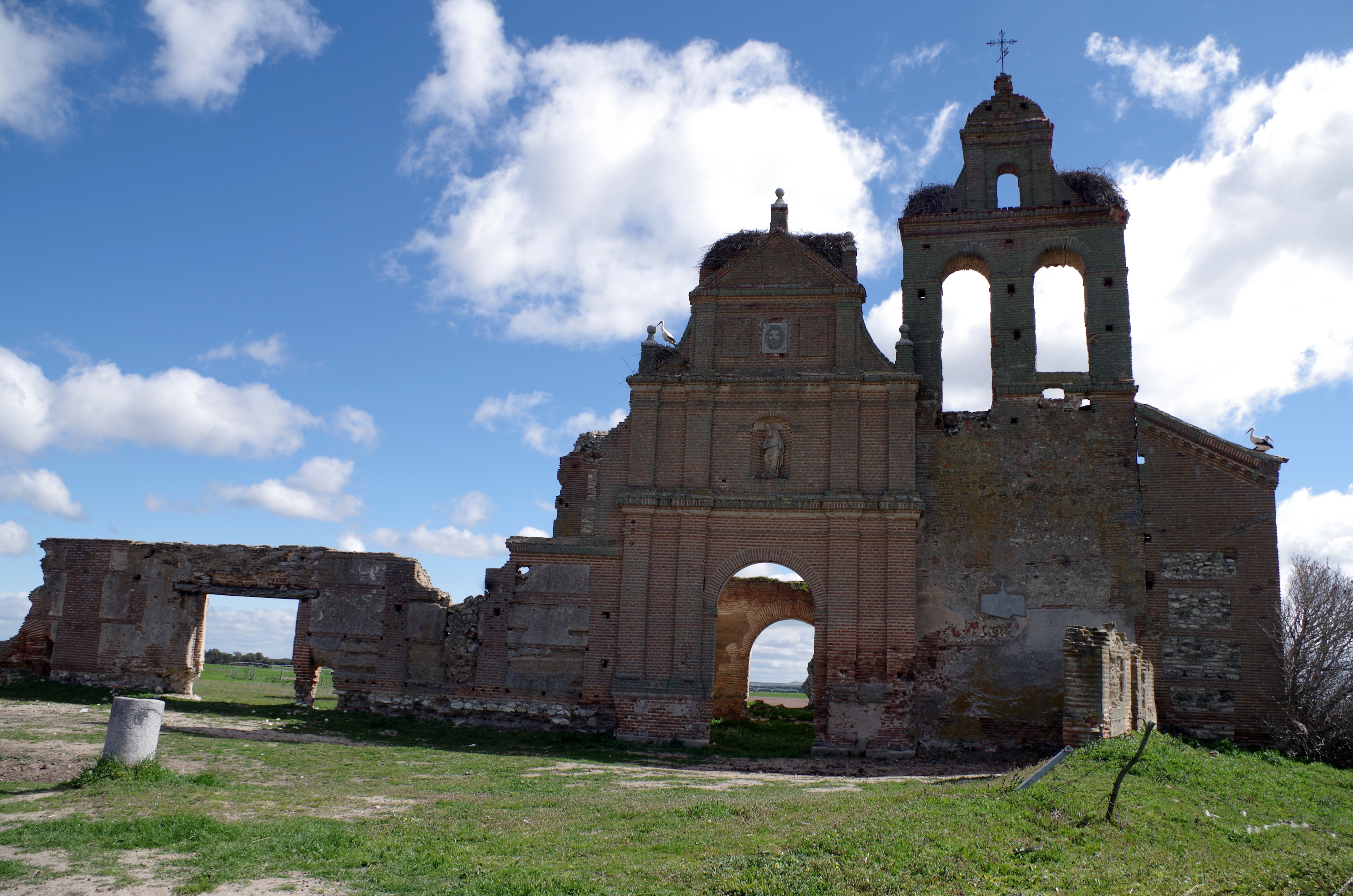 Ruins of the church of Saint Paul in San Pablo de la Moraleja (Valladolid, Spain).